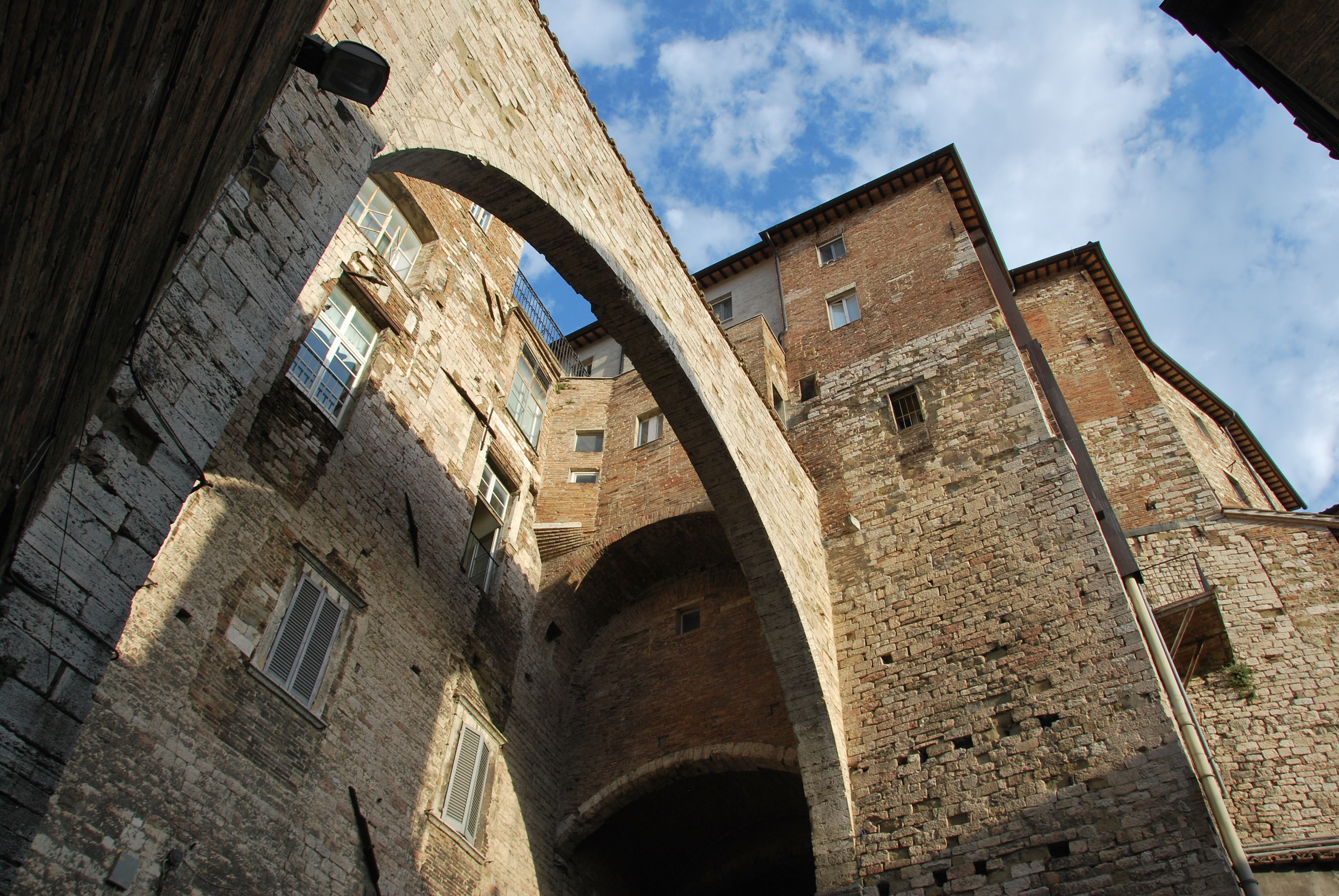 Arches in Perugia